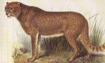 a drawing of a woolly cheetah.